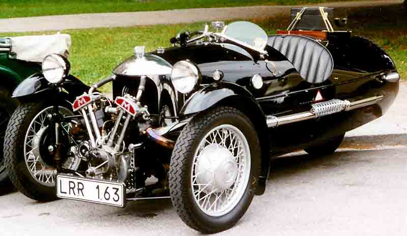 Morgan Super Sports 2-Seater Sports 1937 (Matchless engine)